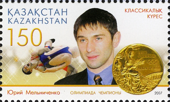 Olympic Champions from Kazakhstan - Yuriy Melinichenko